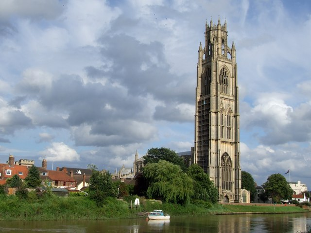 St Botolph, Boston "The Stump", as viewed from across the River Witham. This famous landmark has been here since building began, in 1309. This year sees 700 years of history (1309-2009) of the church, which is to be marked by a celebration. for an overview of the special events, which start on February 8th and go on until December 10th. The '700 Years of History' Exhibition will be launched on April 27th.